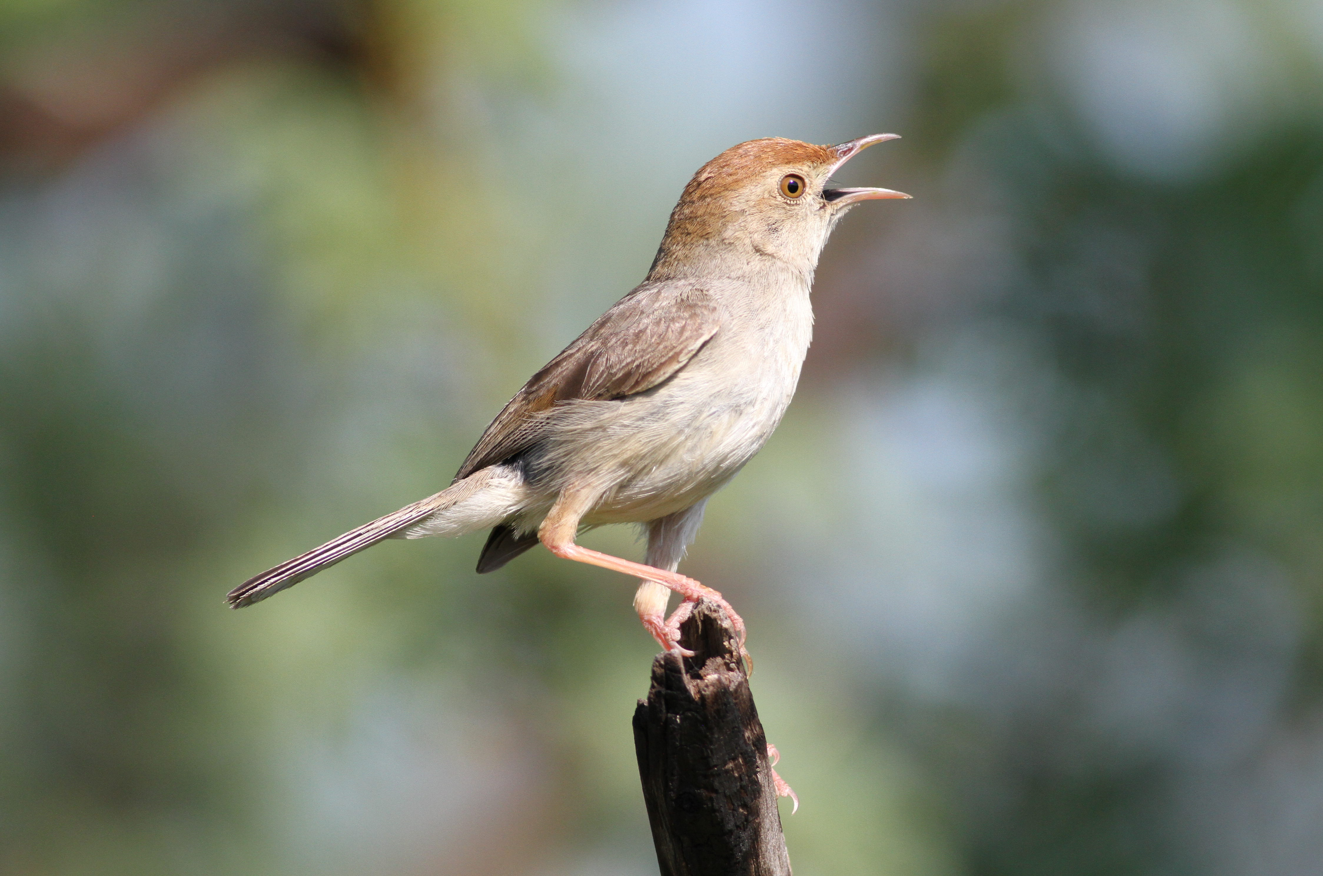 Neddicky, or piping cisticola, Cisticola fulvicapilla at Pilanesberg National Park, Northwest Province, South Africa